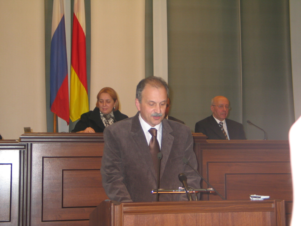 Historian Bzarov (foreground), Sergey Kurginyan (background, right)